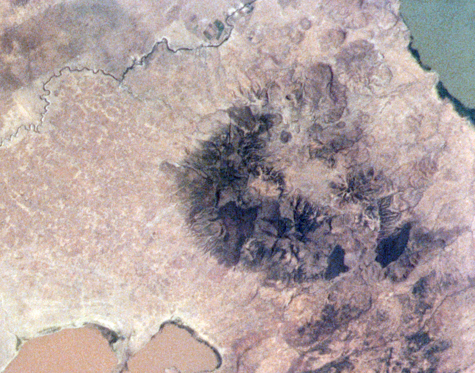 Alutu volcano lies between light-brown Lake Mirrga (Lake Langano) on the south and greenish Lake Zway on the north. The volcano displays several craters aligned along NNE-SSW and E-W fissures. Dark-colored obsidian lava flows erupted from craters along the fissures have descended the flanks in all directions. Although the age of the most recent eruption of Alutu is not known, its eruptive products overlie recent basaltic lava flows to the west, and strong fumarolic activity continues.